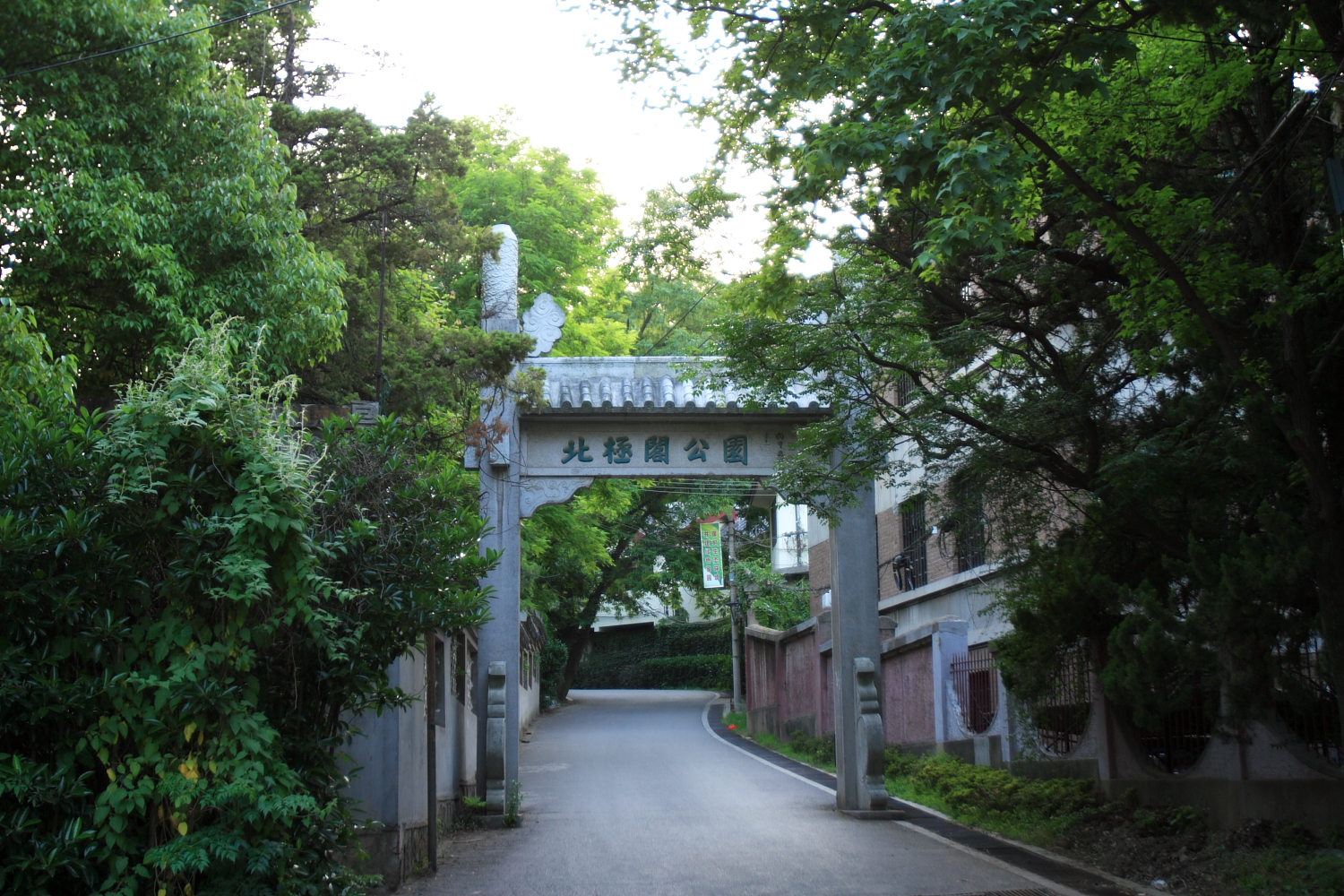 Beijige Park, Nanjing